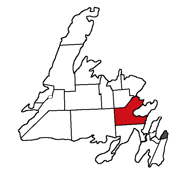 Maps based on images by Earl Warren, from the 2007 elections